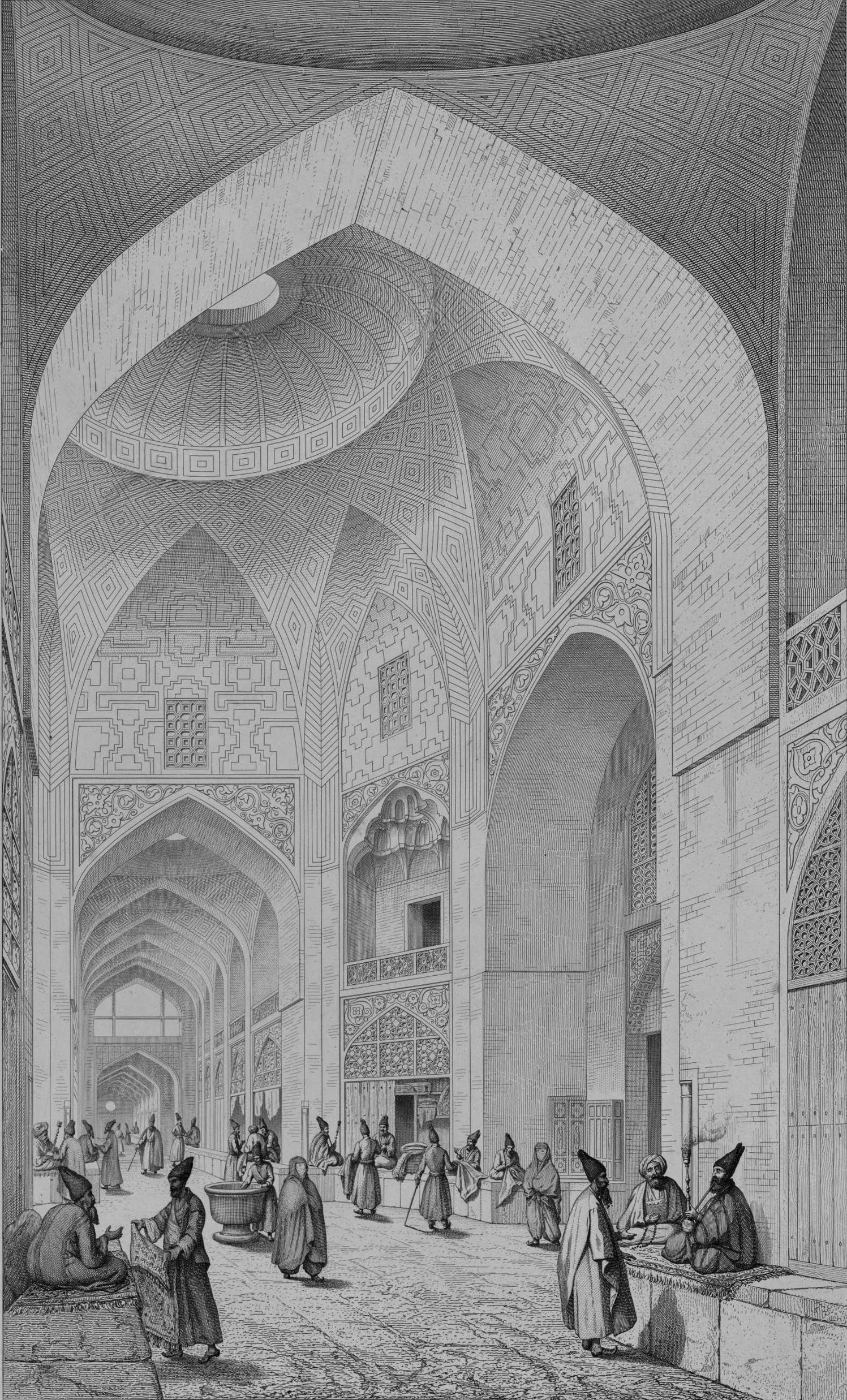 Bazar tailors (Bazar Keisaria)